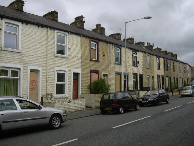 Cog Lane